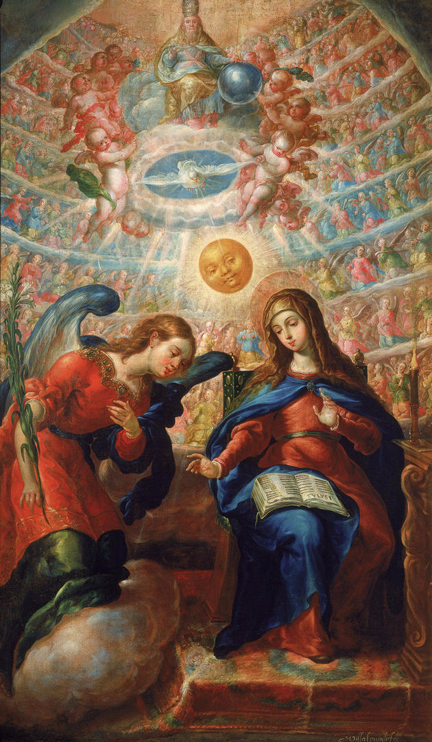 The Annunciation to the Blessed Virgin Mary - Cristóbal de Villalpando. Currently at the Regional de Guadalupe Museum, Zacatecas.